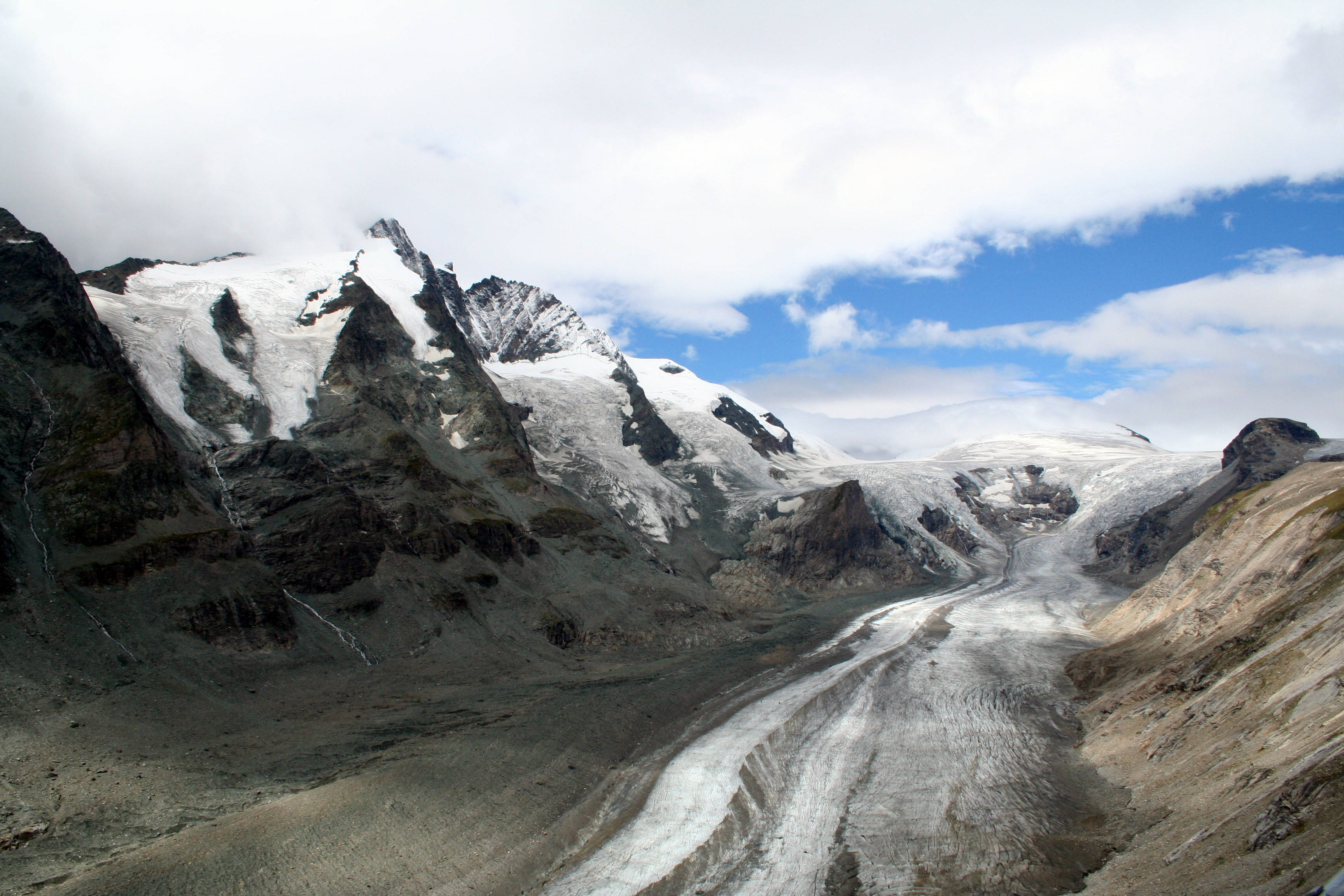 Kaiser-Frans-Josefs-Höhe view: at the left side Hofmannskees, Großglockner, Glocknerwand (below Glocknerkees), Teufelskamp (below Teufelskees), at the end of the glacier, summit covered, the Johannisberg